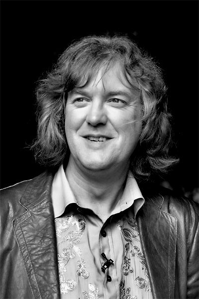 Picture of James May, on the set of Top Gear (current format)